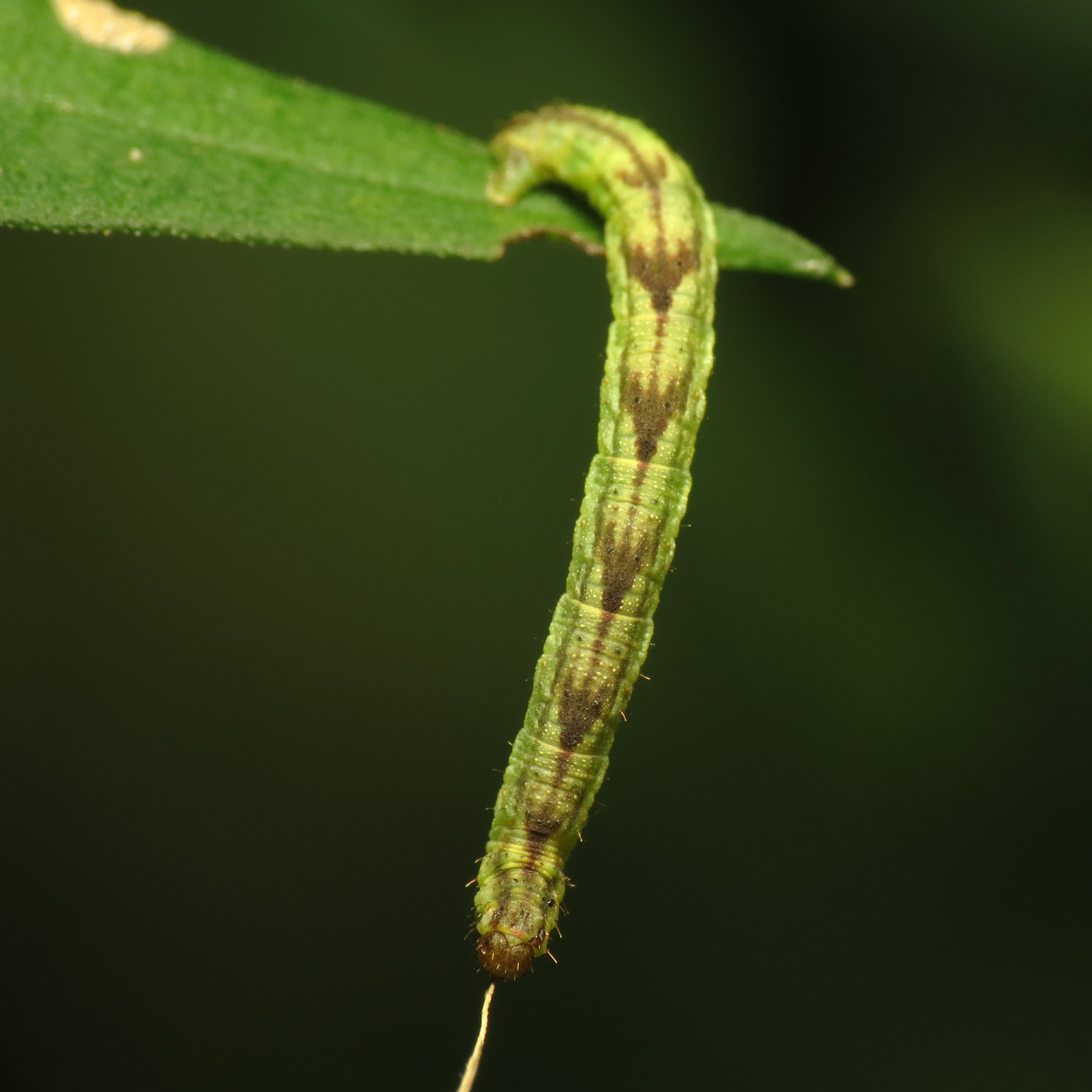 Eupithecia sp. Rock Creek Park, Washington, DC, USA.